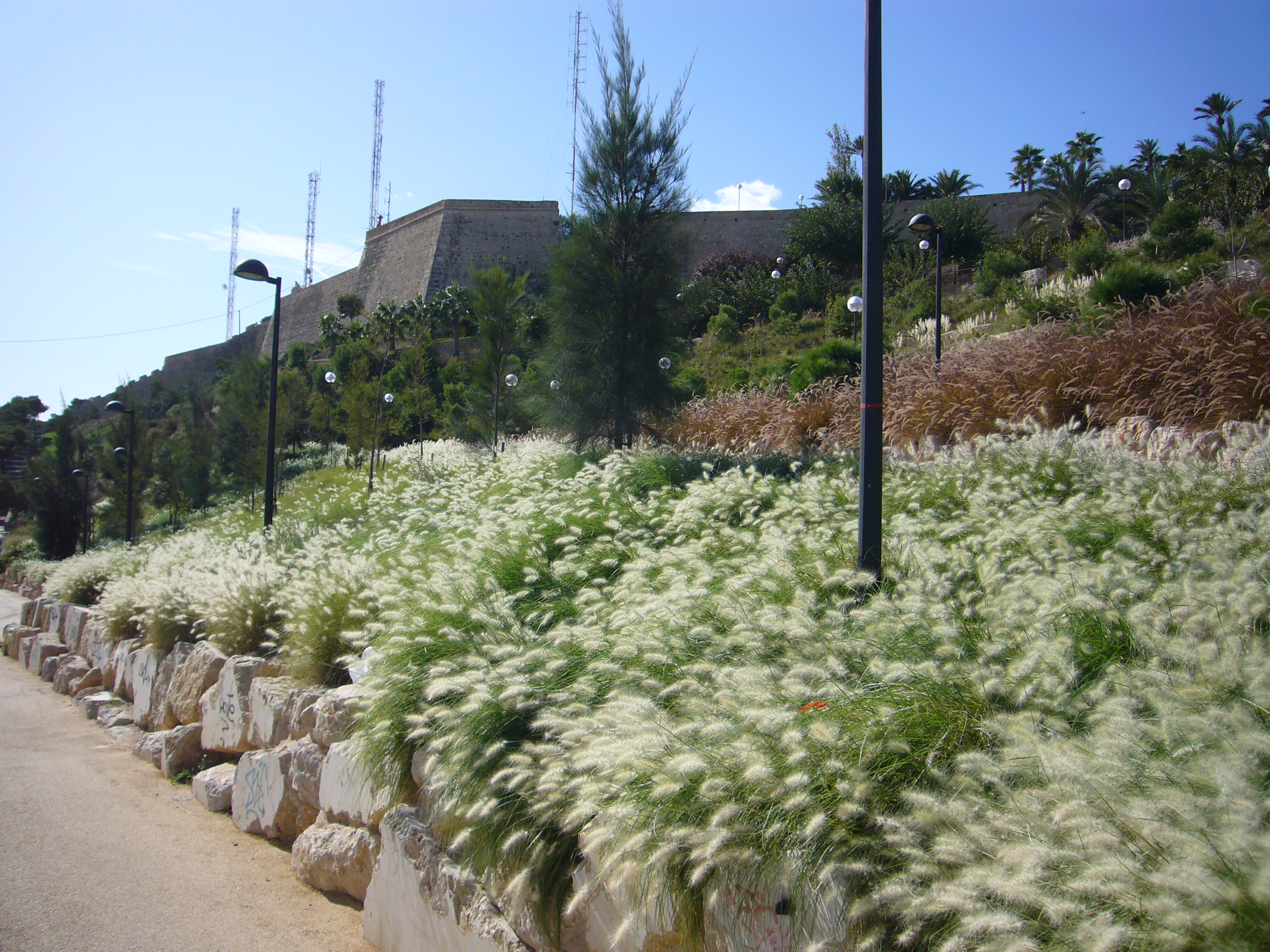 Castle of San Fernando in Alicante, Spain.